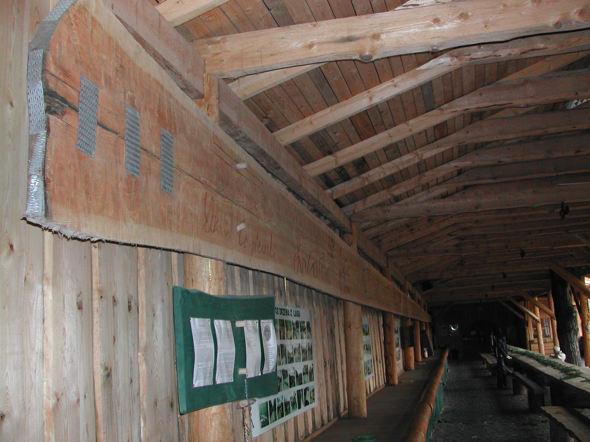 The longest board in the world with a length of 36 m 83 cm entered into the Guinness Book of Records in 2002. The picture was taken 22/10/2005 at the Centre for Education and Regional Promotion in Szymbark in Szymbark, Pomeranian Voivodeship, Poland.